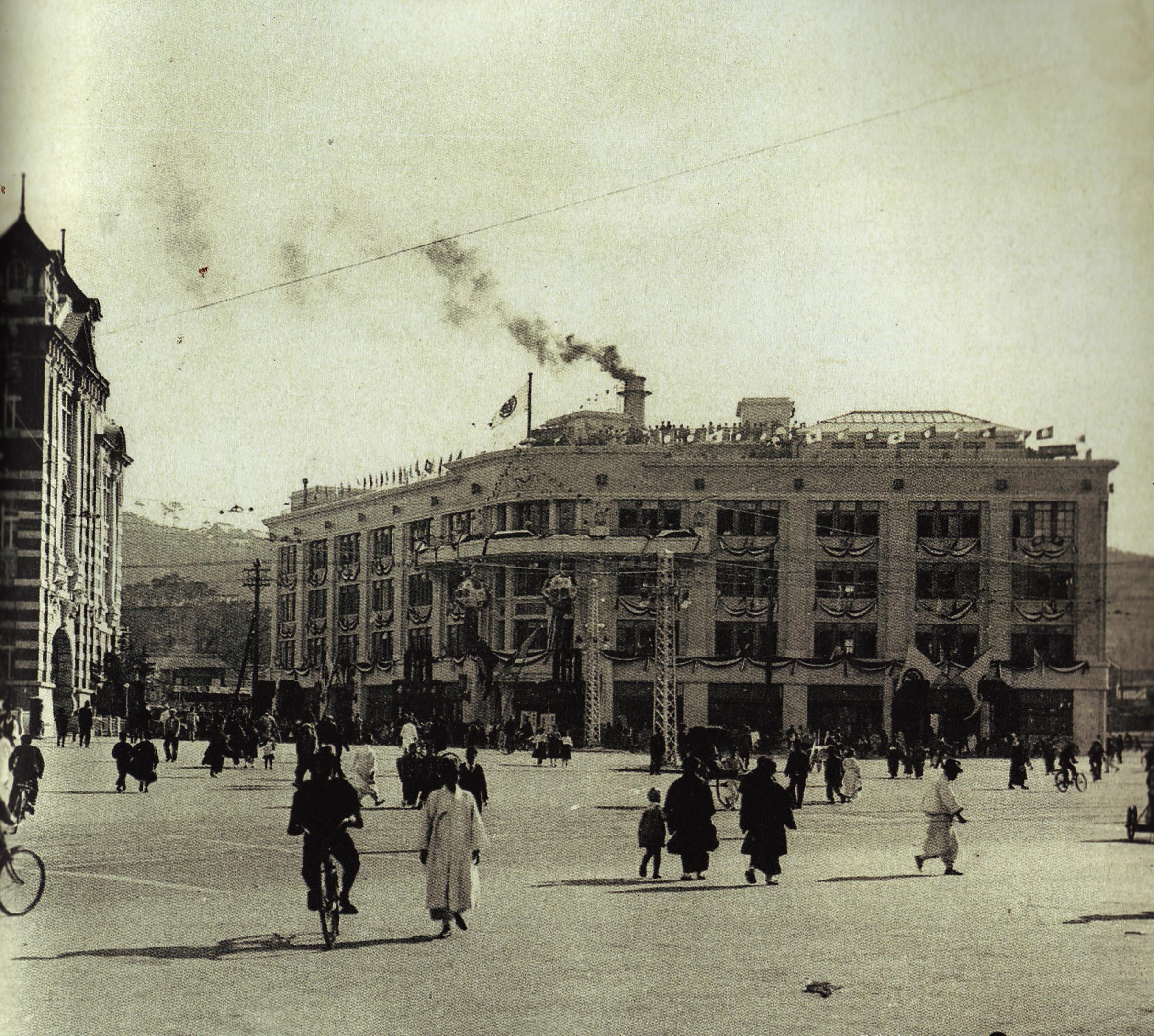 Mitsukoshi Department Store Keijō Branch (present-day: Shinsegae Department Store Main Branch), Keijō-fu Hon-machi 1-52